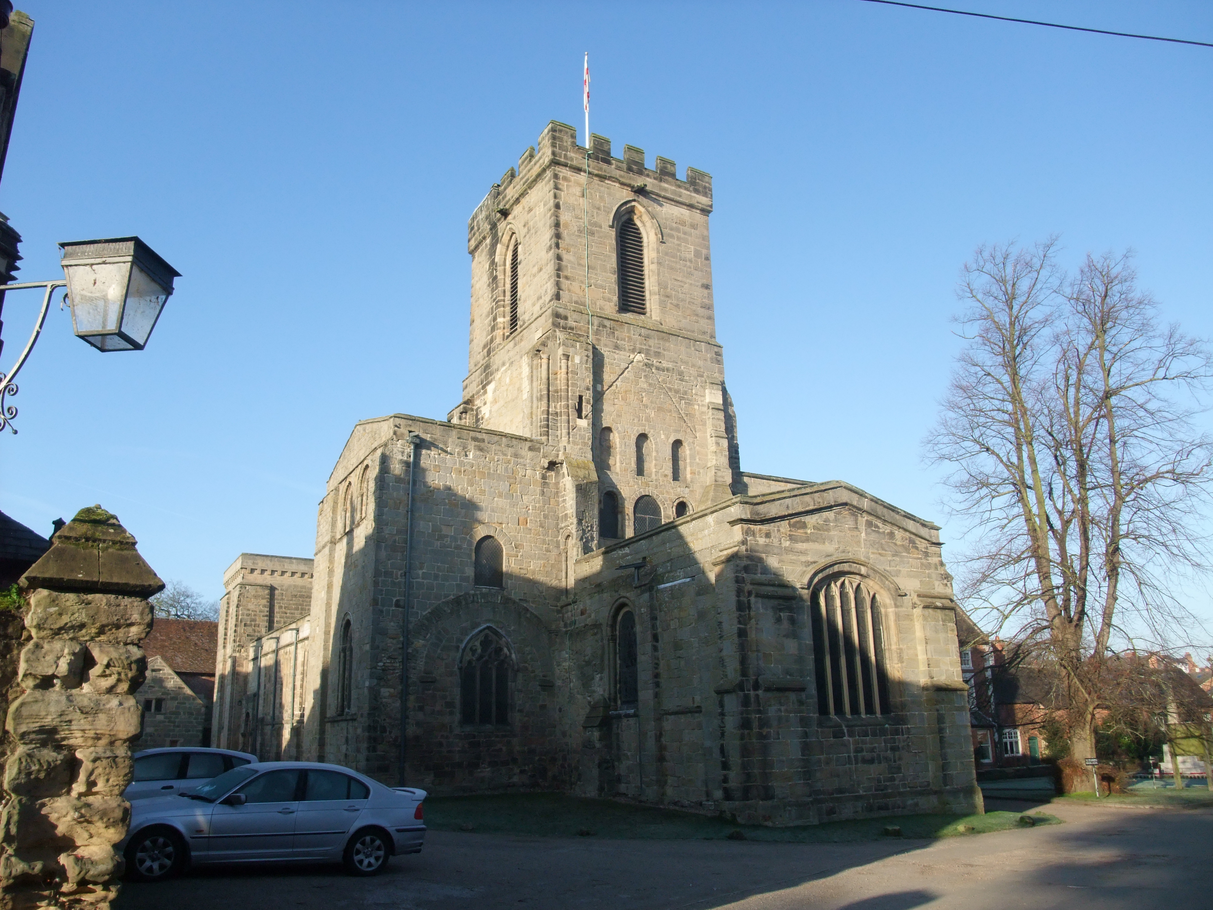 Photograph of St Michael and St Mary's Church, Melbourne, Derbyshire